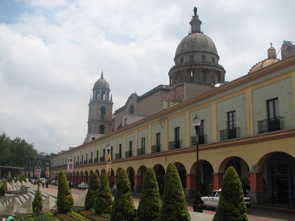 The photograph were taken by Yunus Üstünol. Yunus Üstünol Photography